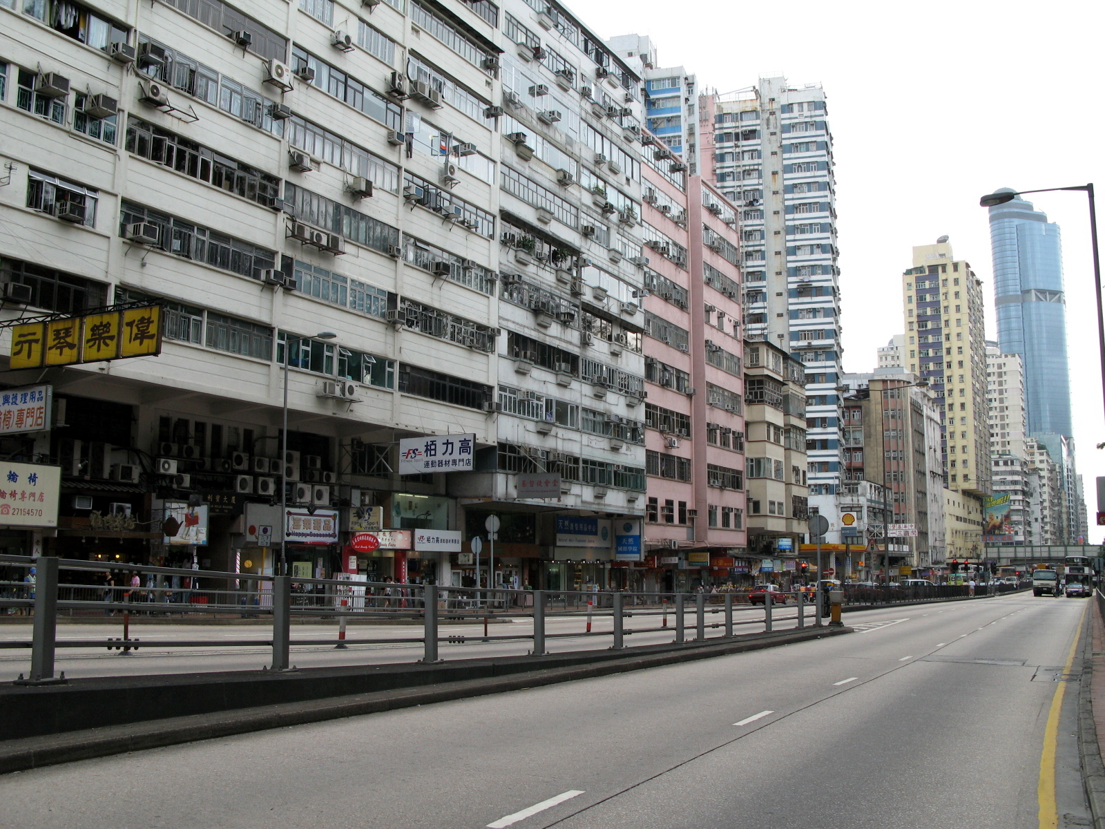 HK Argyle Street Kowlon City Section 亞皆老街